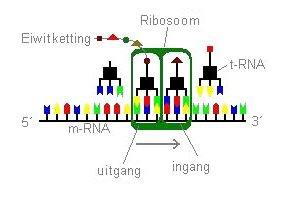 Picture from German Wikpidia. Replaced by Dutch names